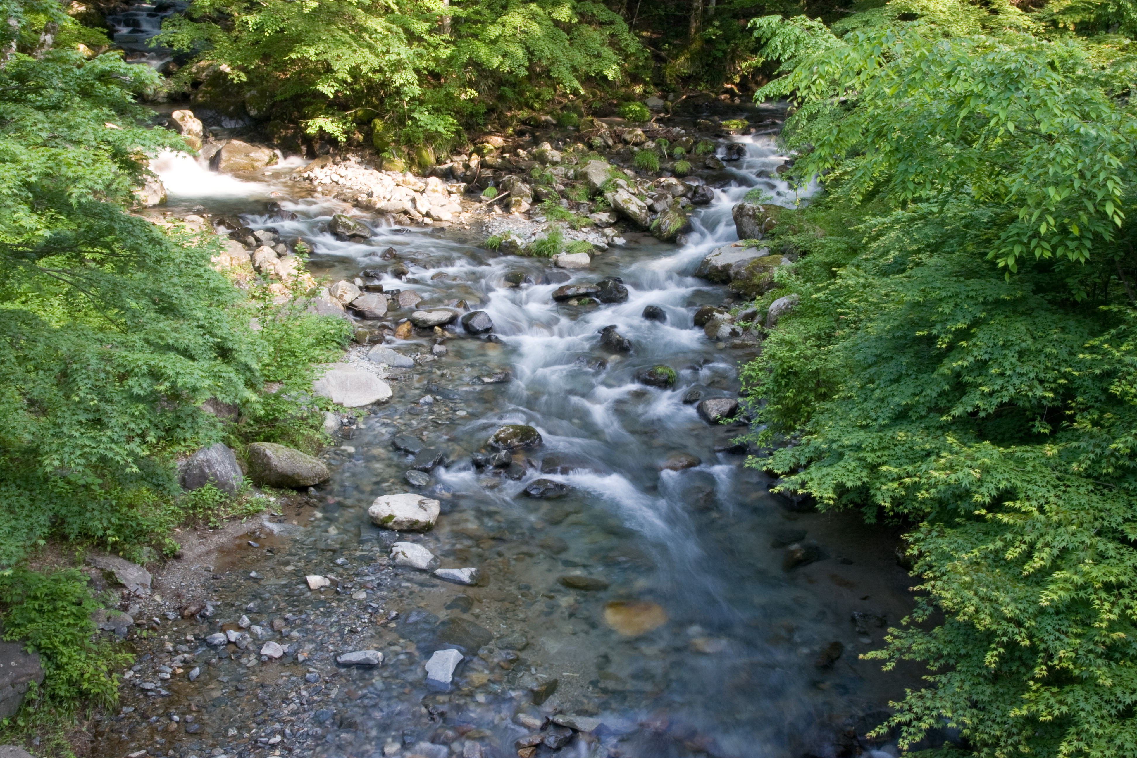 The Sagase river in Doshi Vill., Yamanashi Pref., Japan.